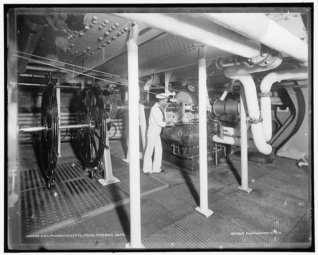 U.S.S. Massachusetts, steam steering gear